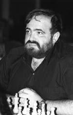 Chess player Lev Psakhis.